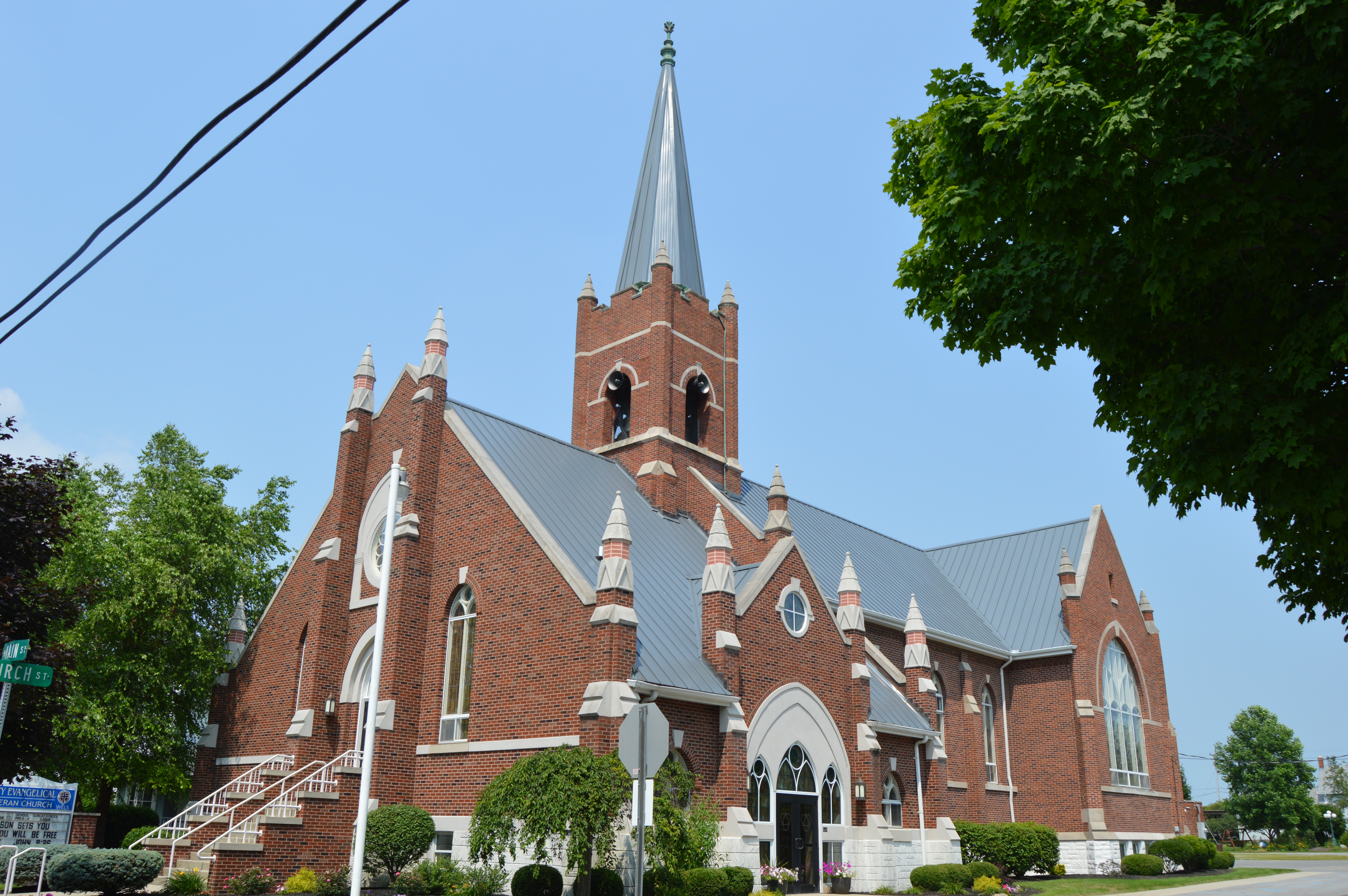 Front and southern side of the Trinity Evangelical Lutheran Church (WELS), located at 301 N. Main Street (State Route 698) in Jenera, Ohio, United States. It was built in 1889. Church website.